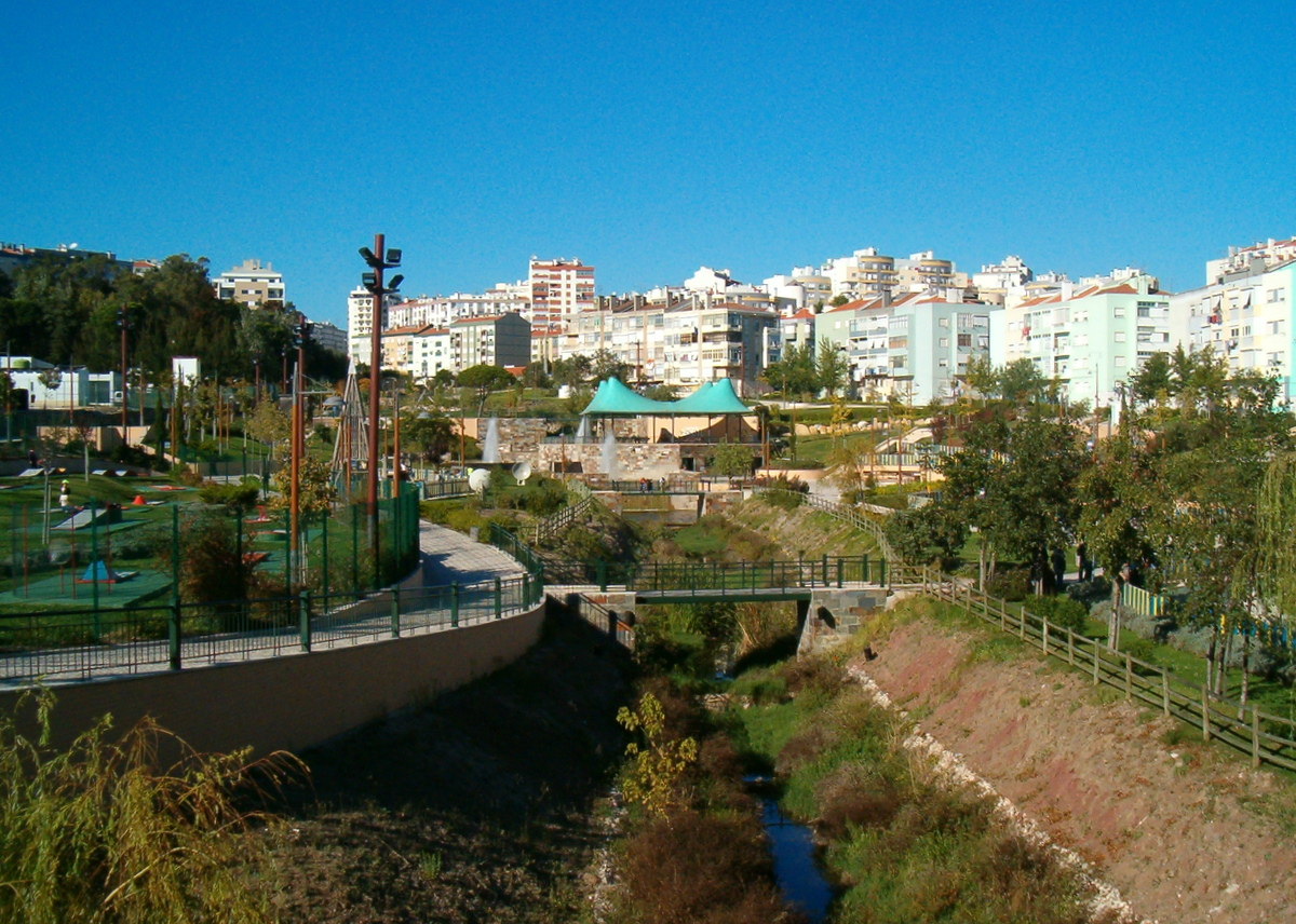 Amadora_-_Parque_Aventura